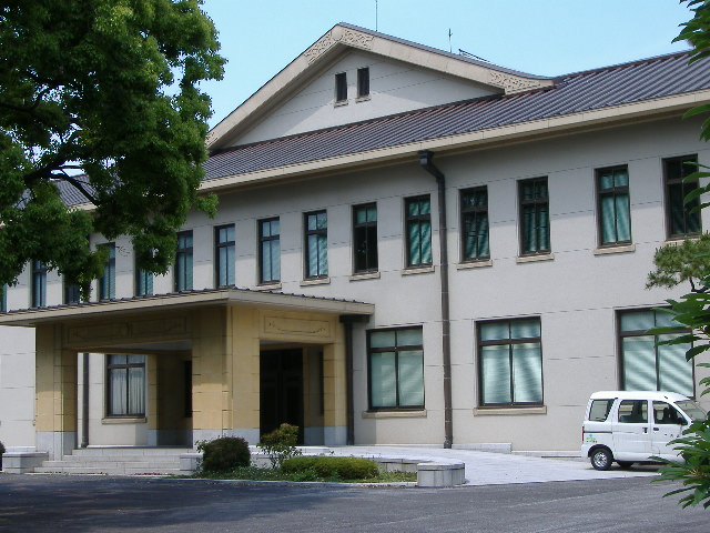 Music Department of the Board of Ceremonies of the Imperial Household Agency